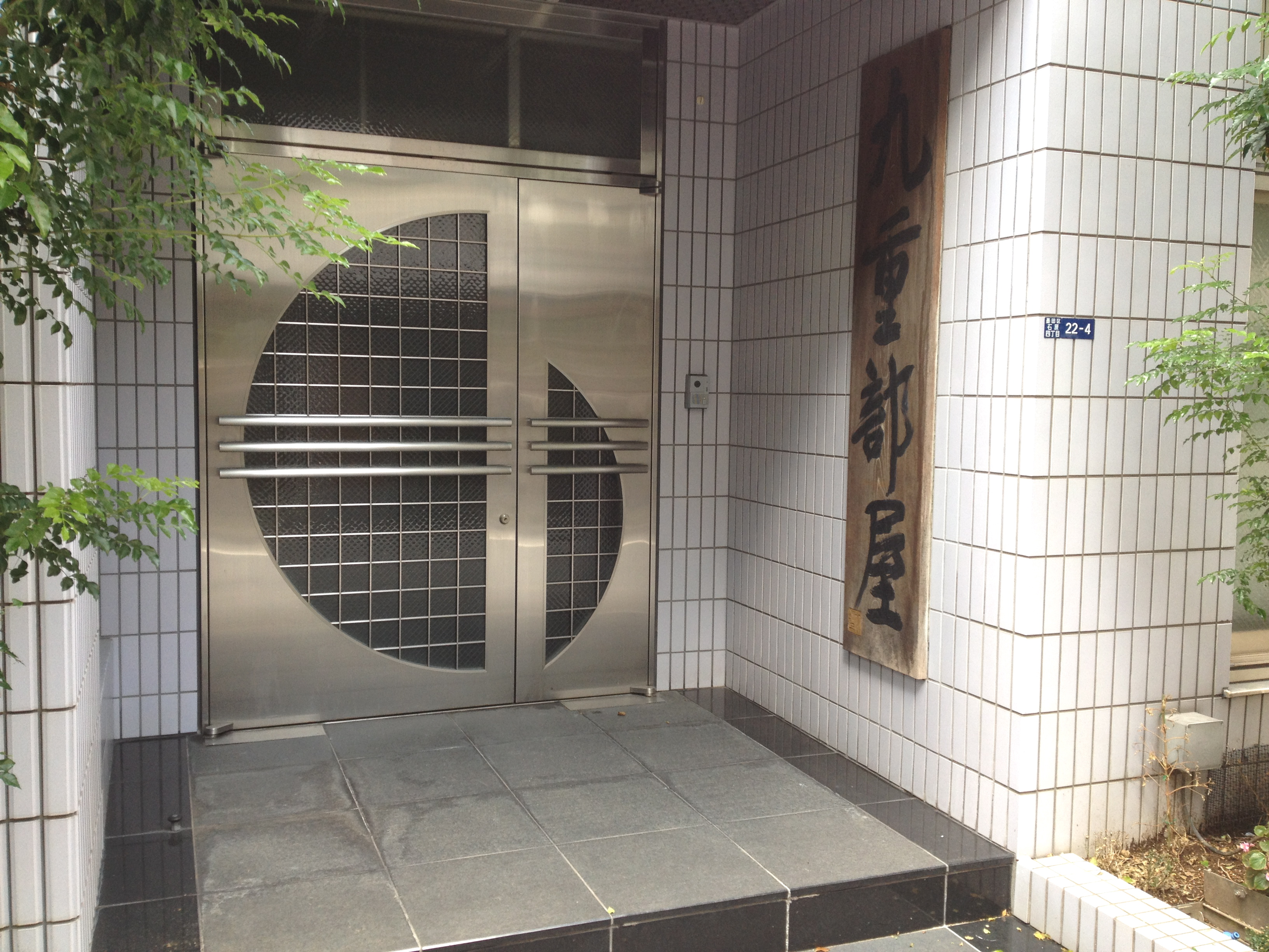 front of the sumo stable